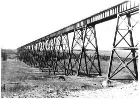 An old picture of a train trestle in Alberta.